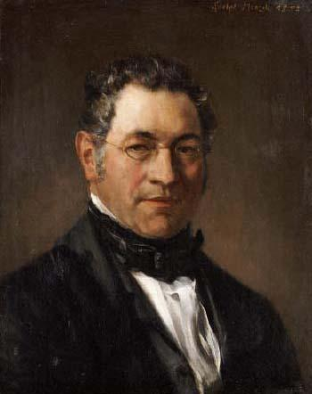 Depicted person: Siegfried Wilhelm Dehn